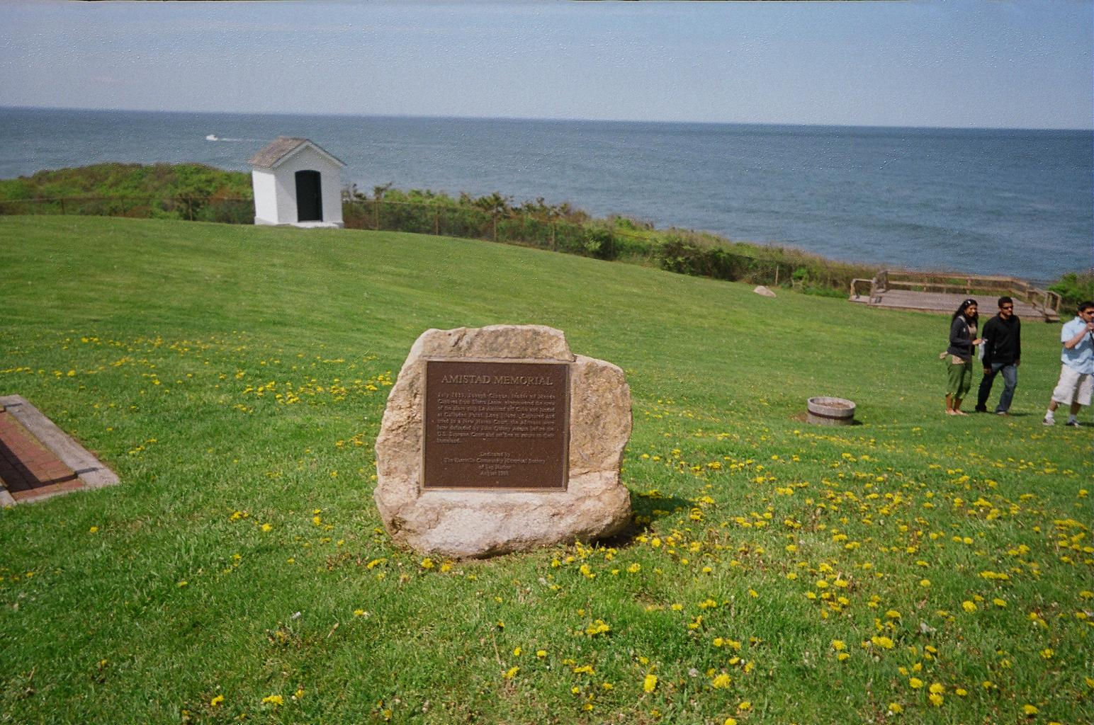 Memorial at Montauk Point State Park for slaves on the Spanish ship La Amistad who revolted against their masters, only to be forced onto the coast of Connecticut, captured by the United States Navy, and wound up in a custody battle between Spain and the United States for their right to return to Africa.